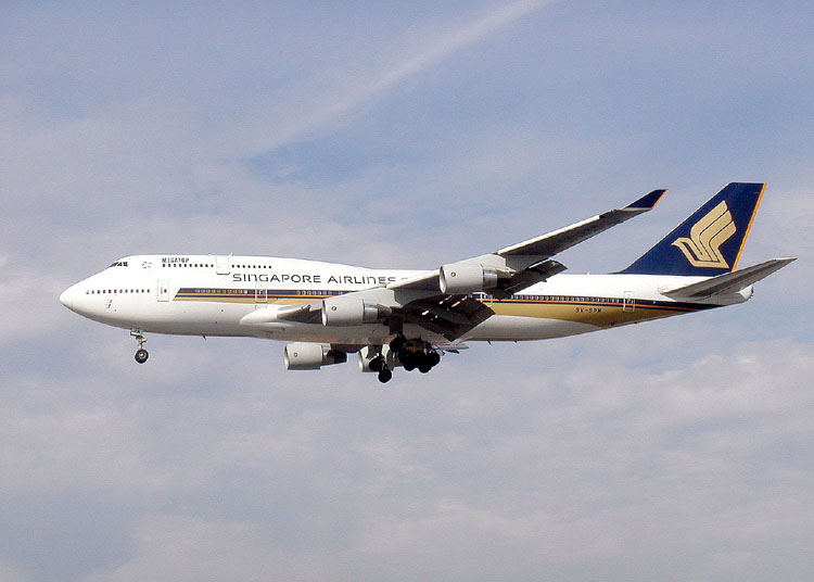 Singapore Airlines Boeing 747-412 (9V-SPM), on the approach to London (Heathrow) Airport. Photographed by Adrian Pingstone in September 2003 and released to the public domain.